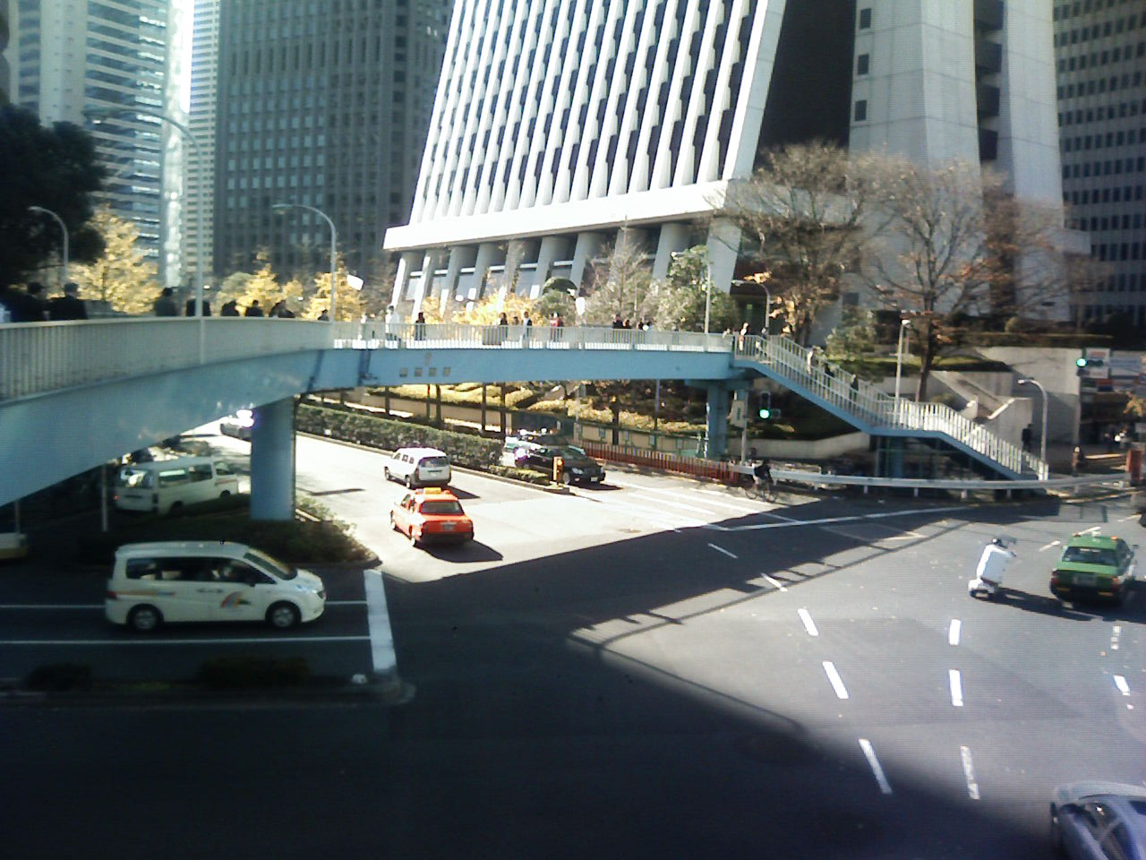 Shintoshin-hodokyo, shinjuku-ku, Tokyo, Japan